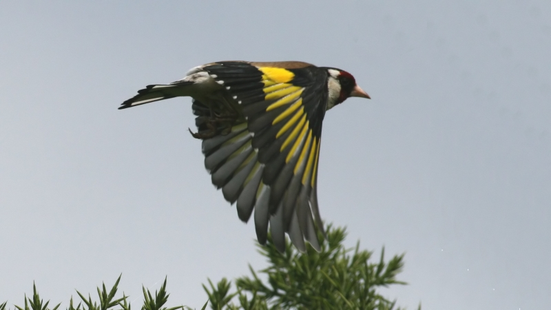 Goldfinch (Carduelis carduelis)